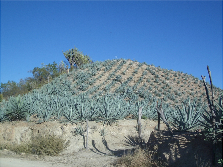 A typical Agave tequilana landscape at dawn — in Jalisco.